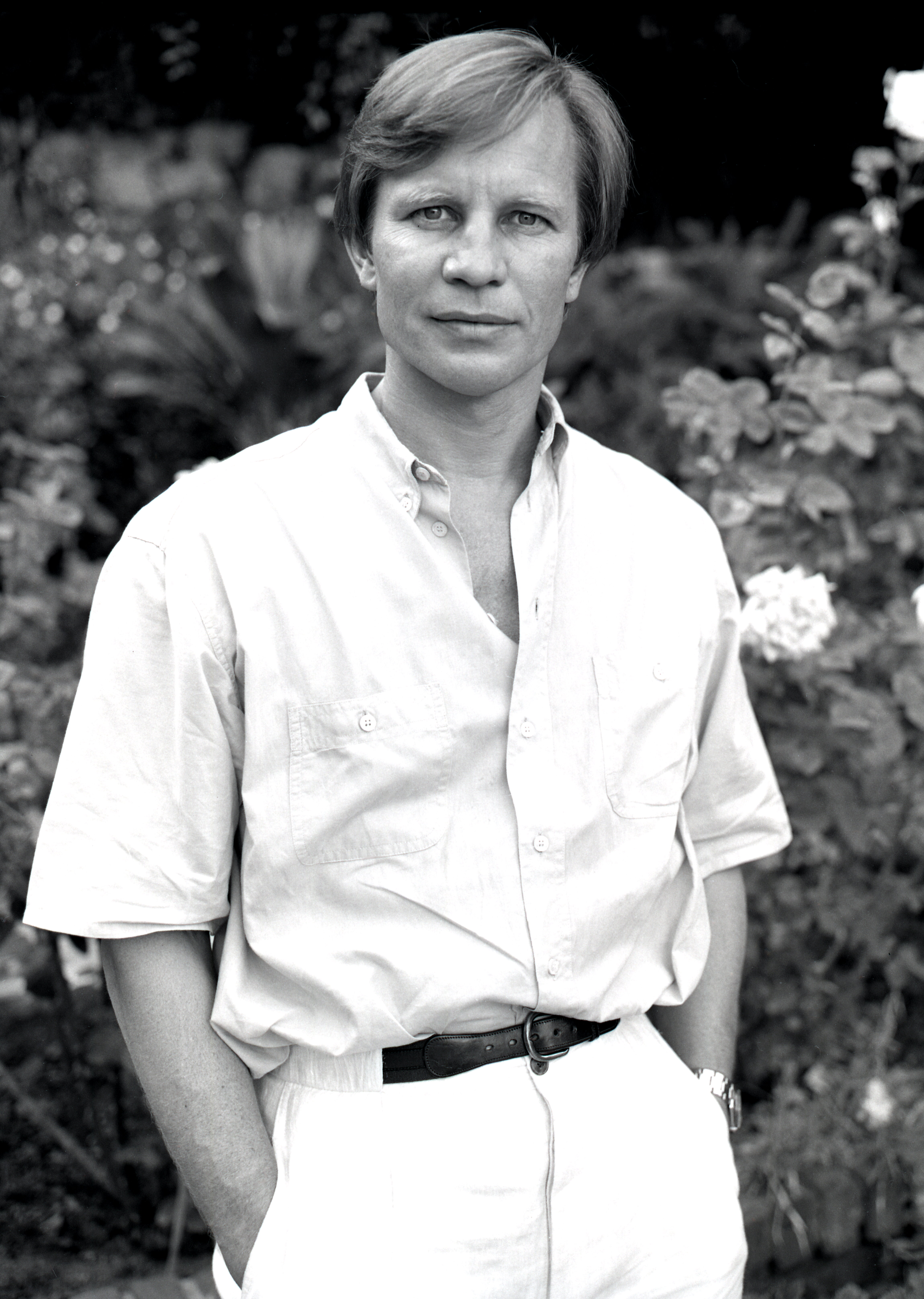 Portrait of Michael York